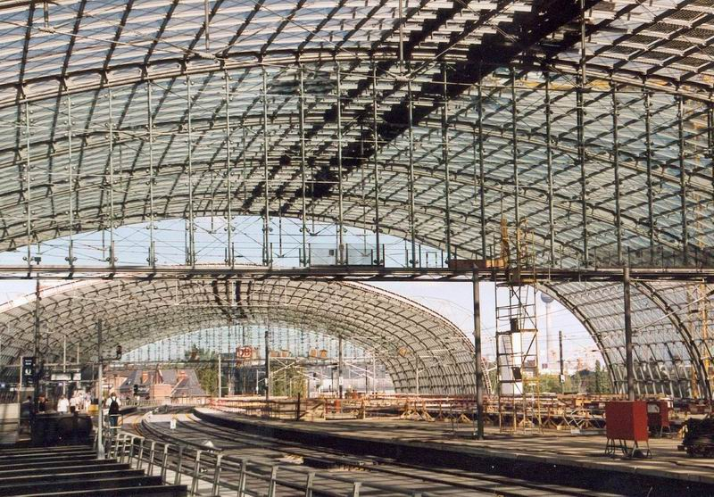 The station Lehrter Bahnhof in Berlin - inside (under construction)